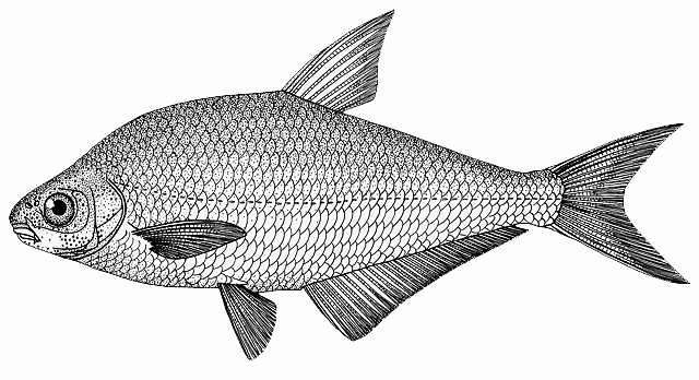 Abramis sapa (Pallas, 1814)